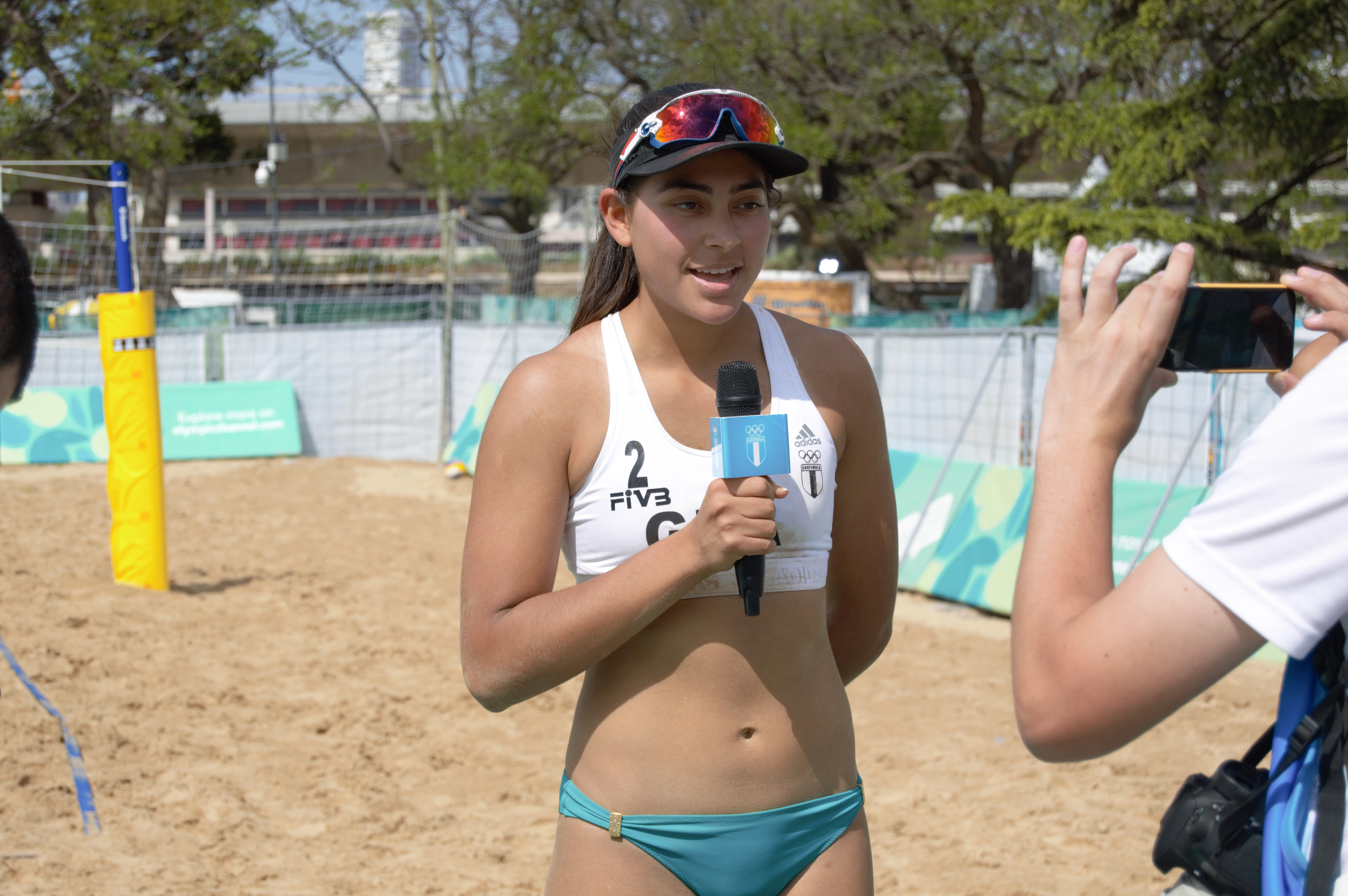 Maria Fernanda Juarez Pena being interviewed during the 2018 Summer Youth Olympics.